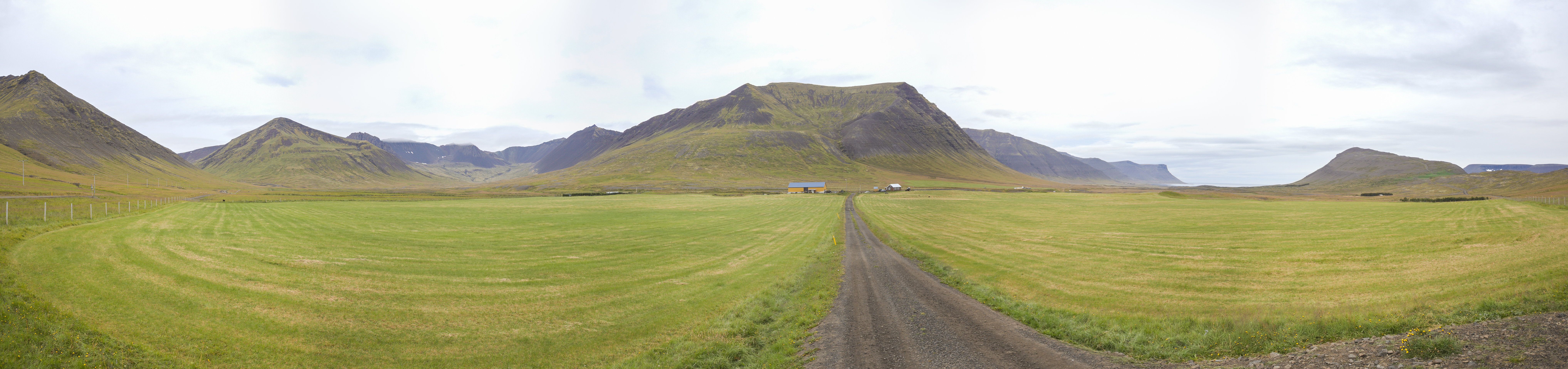 Landscape near Þingeyri, Vestfirðir, Iceland.